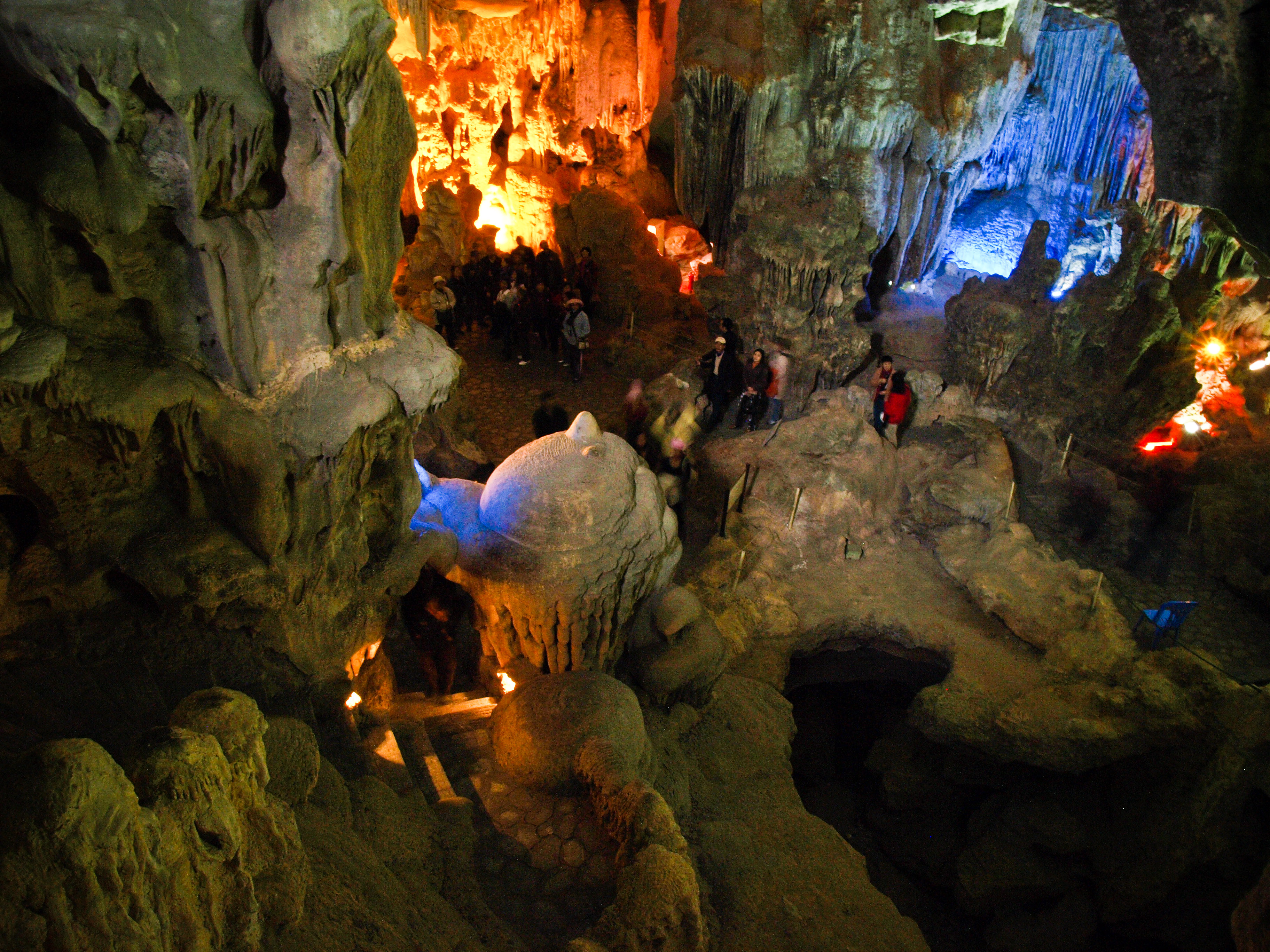 Thien Cung grotto in Ha Long Bay, Vietnam